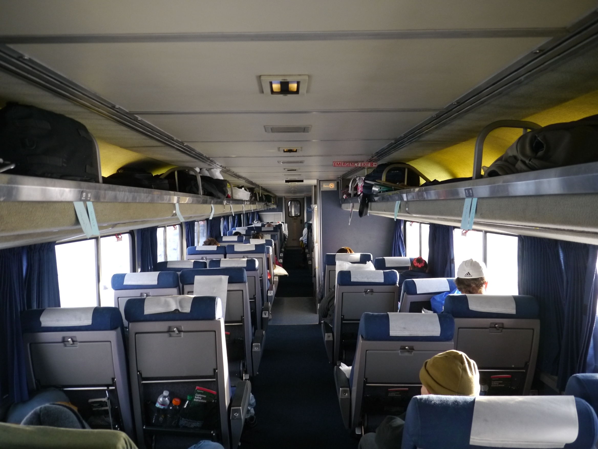 Coach 34029, northbound.